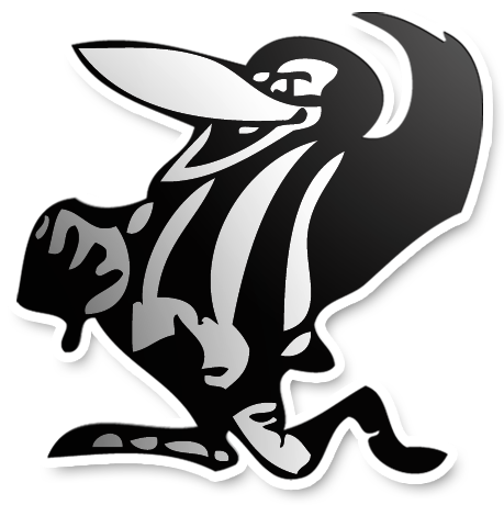 Magpie-illustration